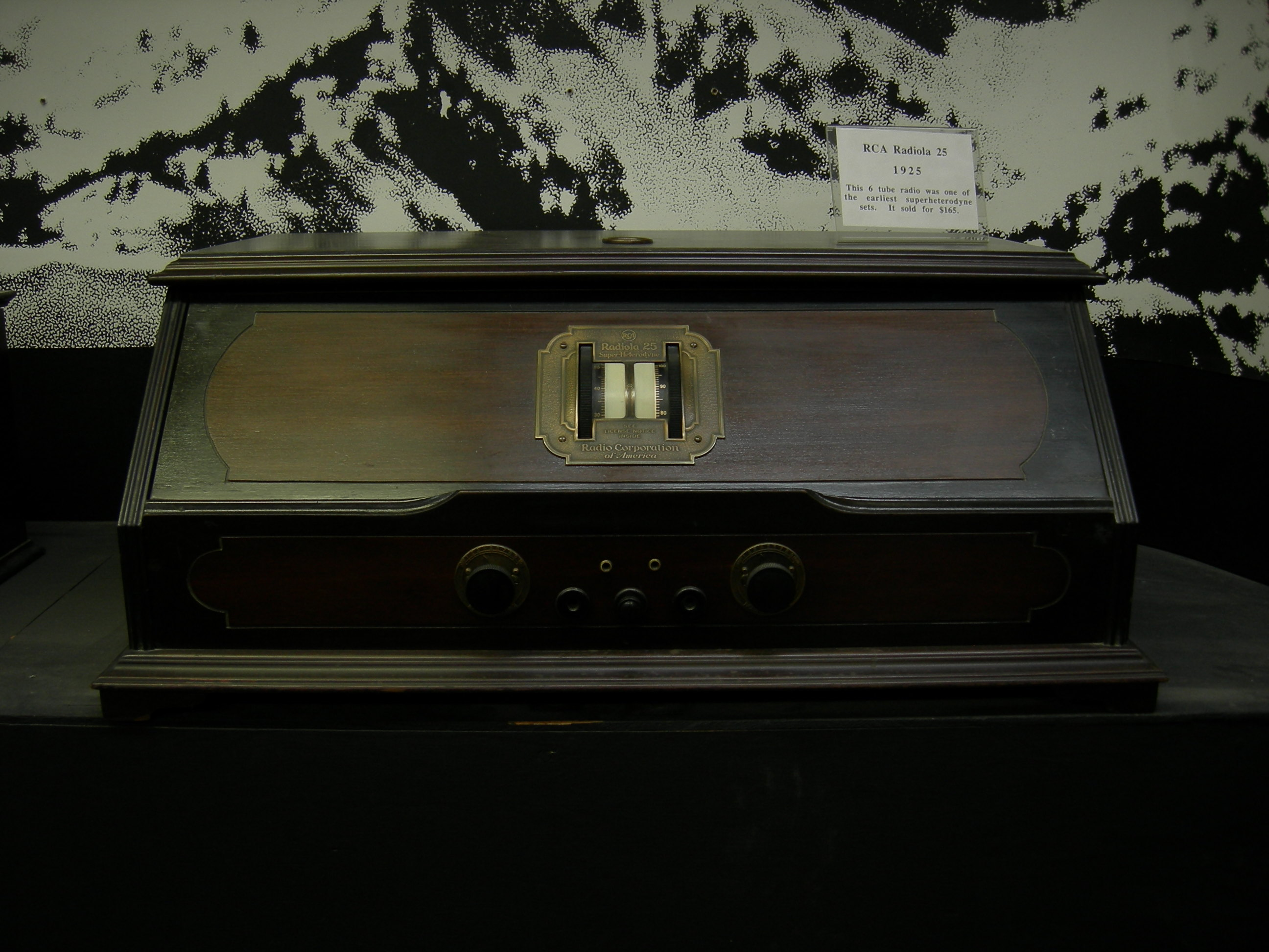 RCA Radiola 25 radio, manufactured 1925. Photographed at Shoreline Historical Museum, Shoreline, Washington.